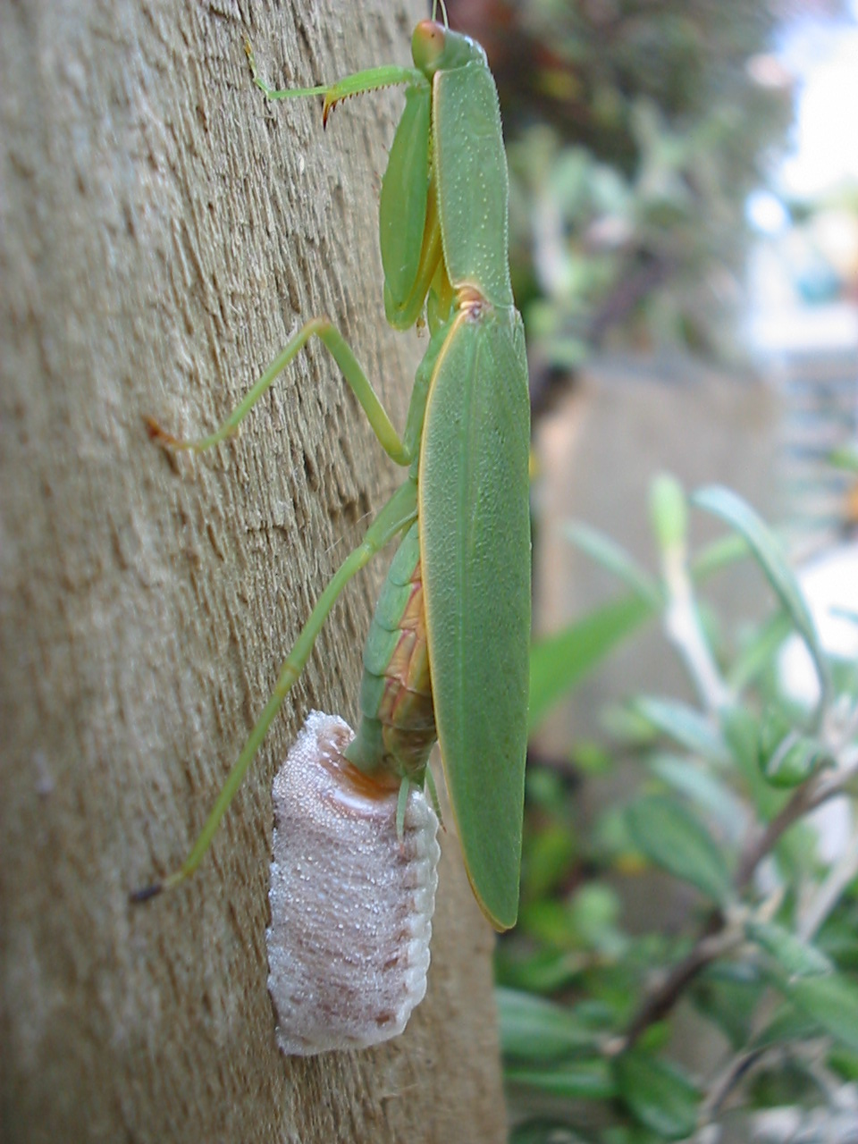 New Zealand Mantis (Orthodera novaezealandiae) laying eggs, Wellington Flickr description: "I was very pleased with myself catching this girl in action. Although I watched the case for months, I never did spot any babies. Now that would be an ever better shot: a hatching..."